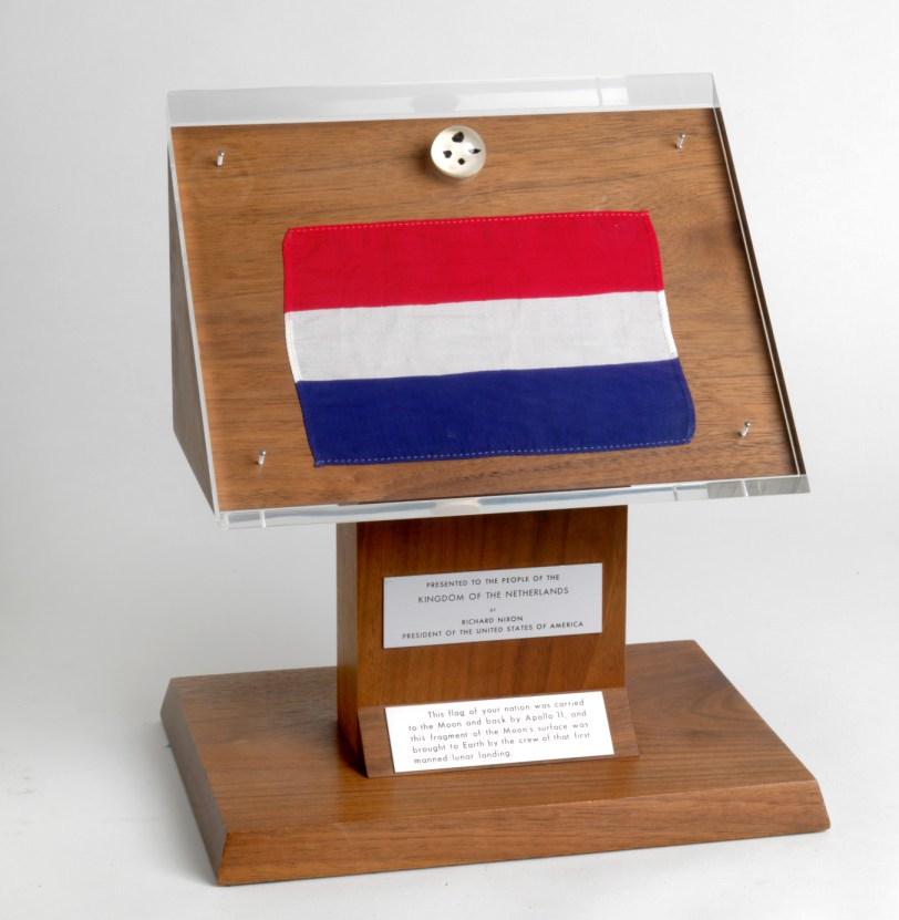 Netherlands Apollo 11 display